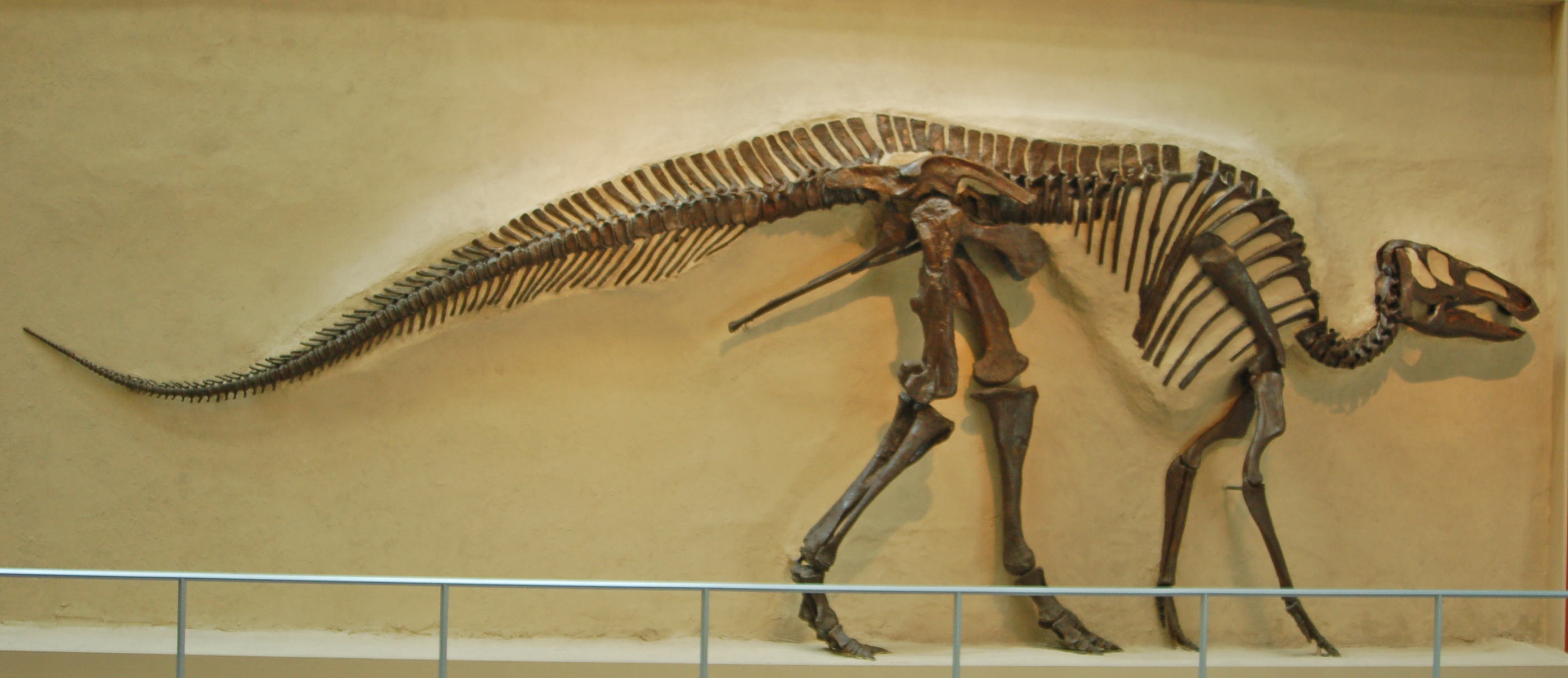 Skeleton of Edmontosaurus annectens collected 1924, at the Royal Ontario Museum